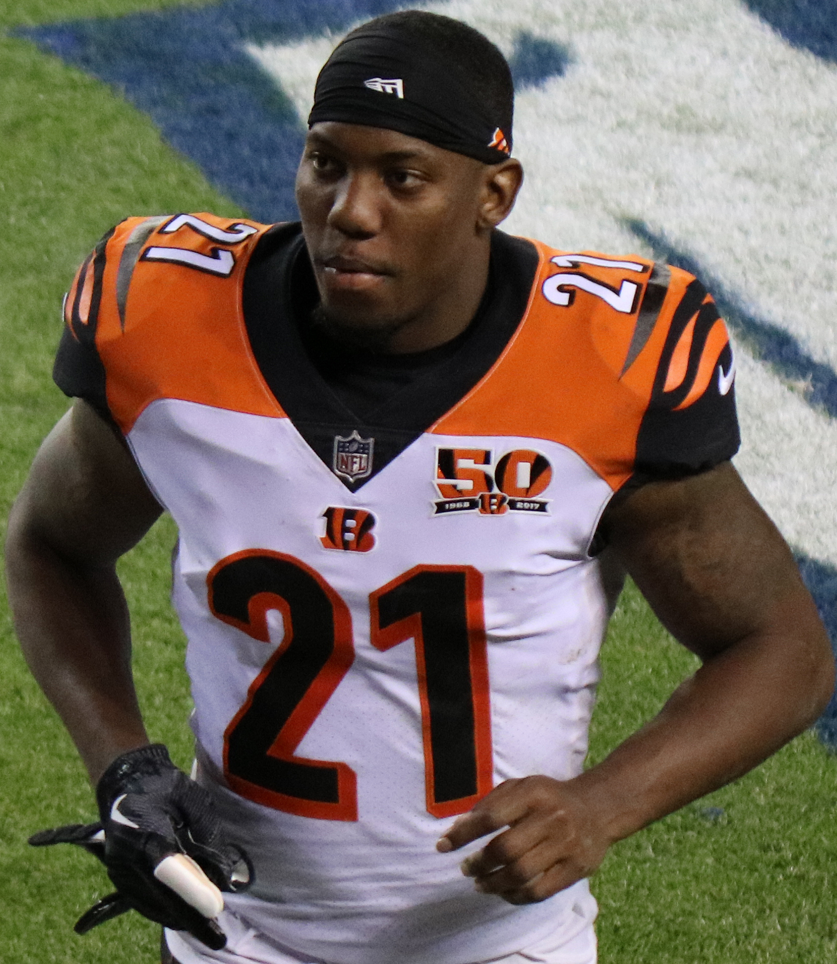 Darqueze Dennard, a National Football League player.